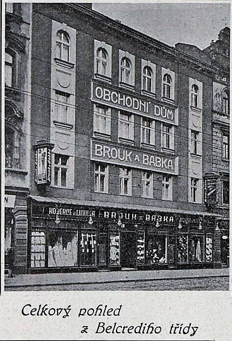 Prague warehouse "Brouk a Babka" 1925